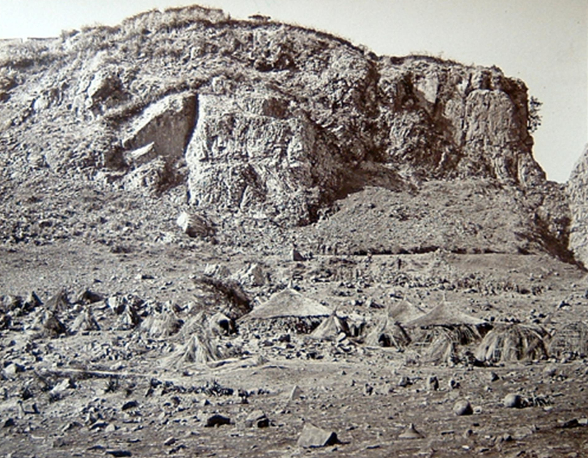 1868 photo of the route into the Fortress at Magdala. The pathway goes from the right side of the cliff face and follows the line of boulders to the left and up to the small hut on top of the escarpment. Source=inherited family photo album, author unknown but dated April 14-18 1868 Author= unknown but deceased over 70 years ago